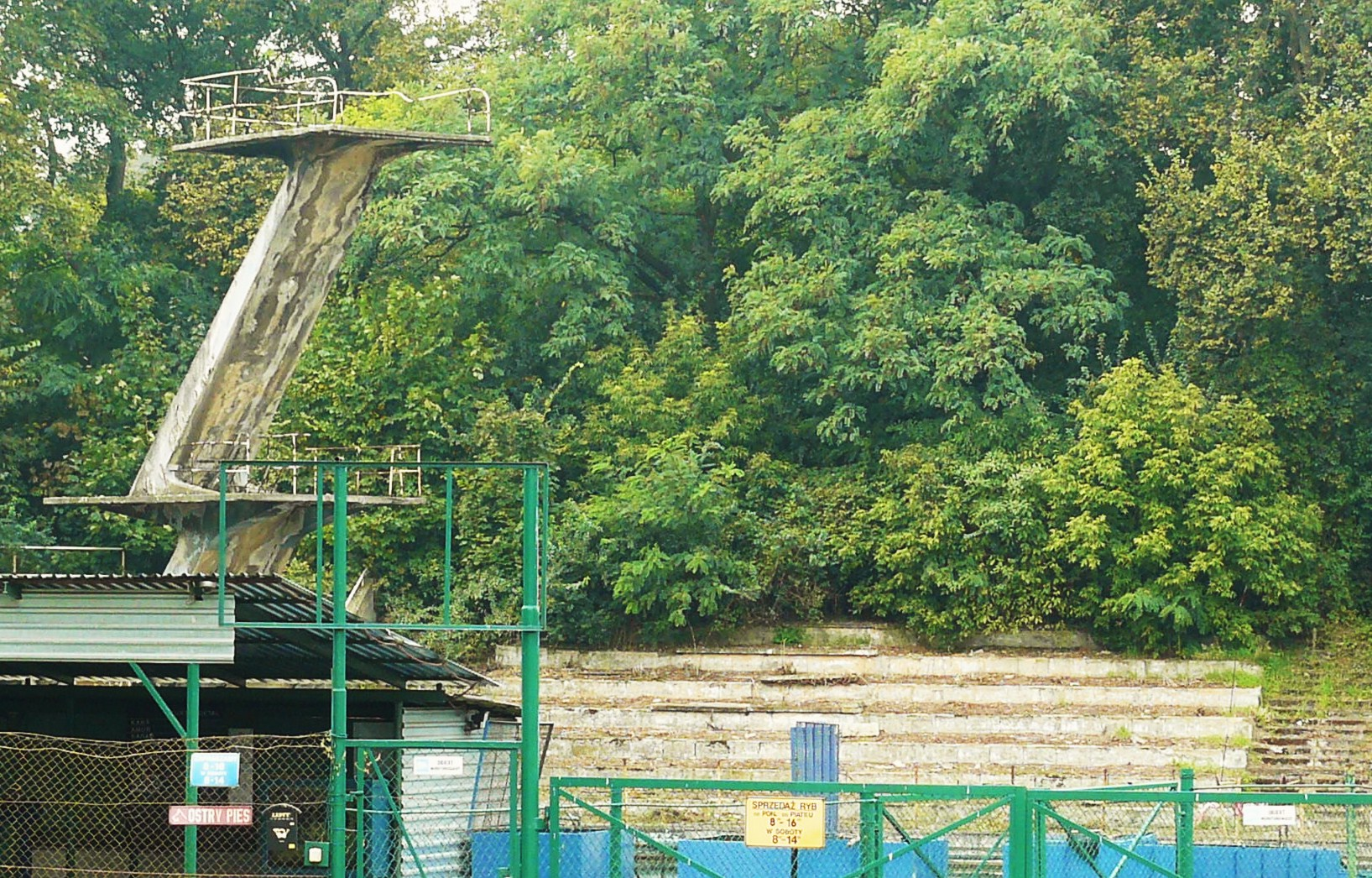 Niestachowska Street, Poznań, old pools.